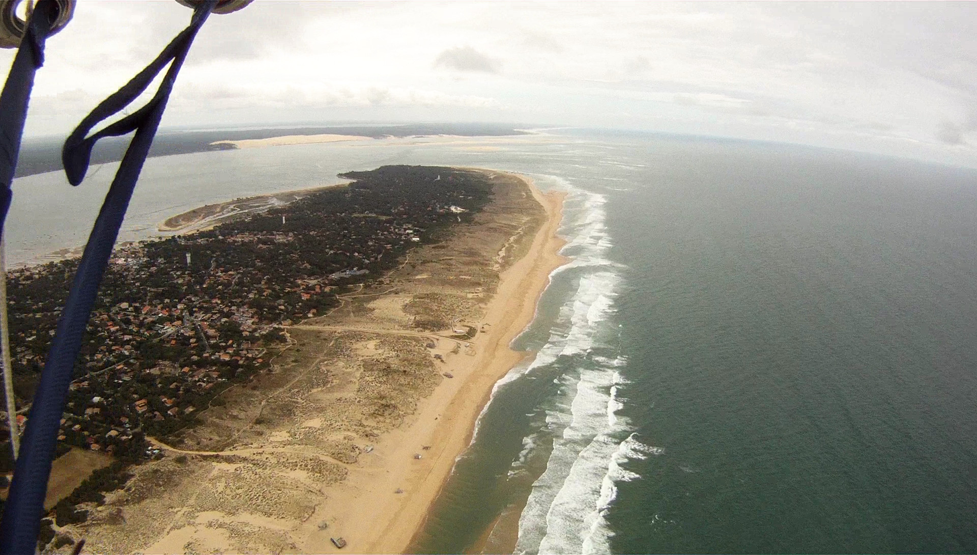 Survol du Cap Ferret en parachute